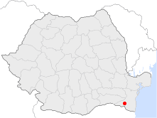 Location of Adamclisi (Constanța) in Romania.